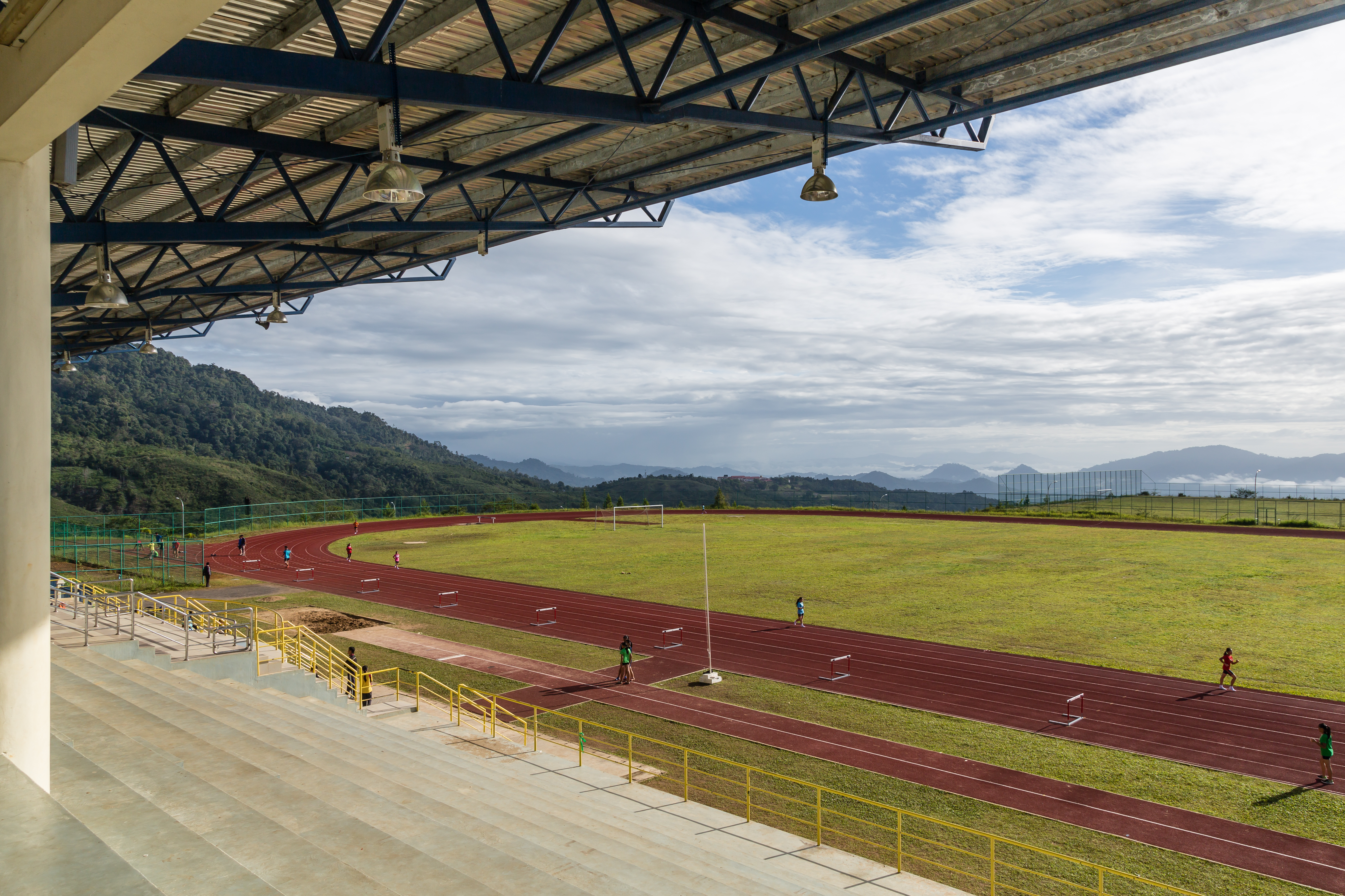 Ranau, Sabah: New Ranau Sports Stadium